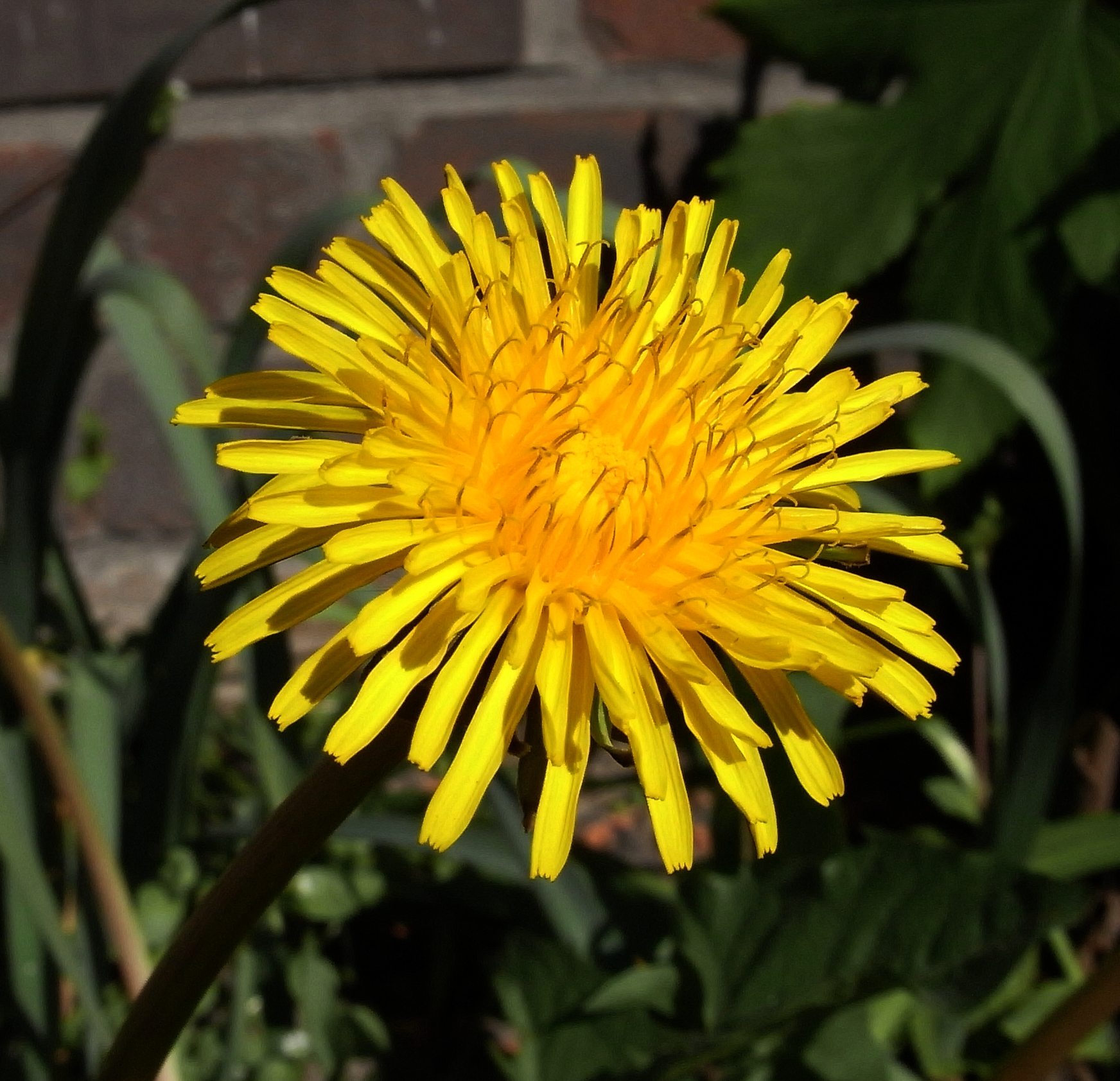 Taraxacum officinale